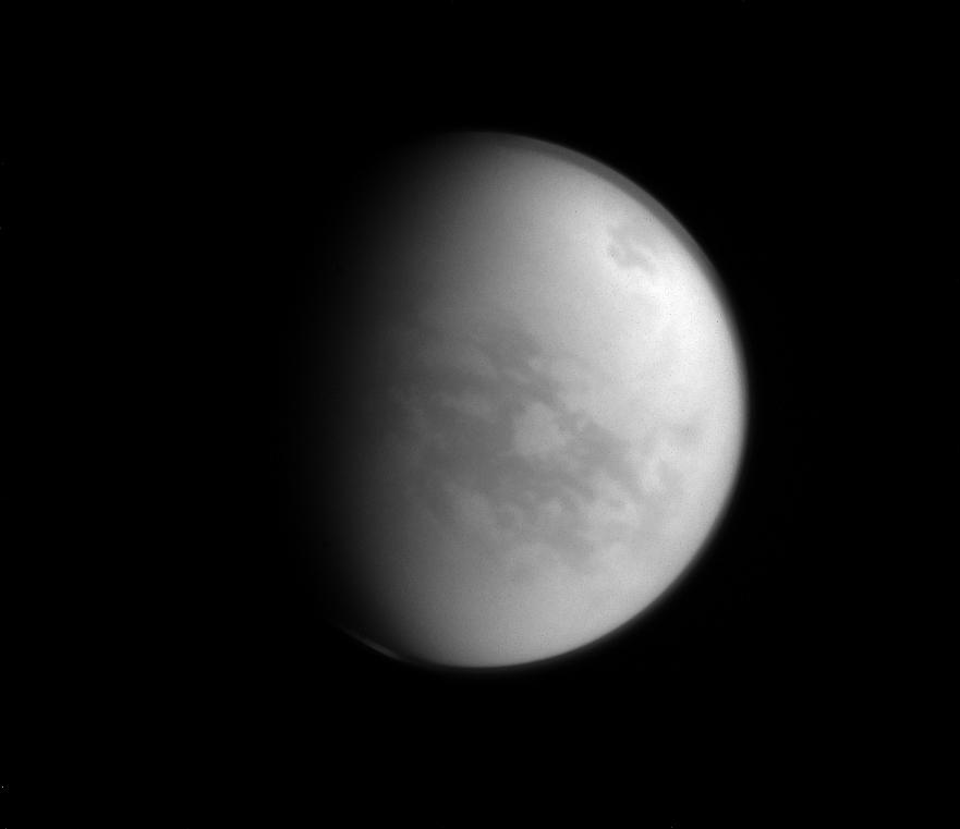 PIA18309: Frozen Paradise Named after a Japanese paradise, the Senkyo region of Titan (the dark area below and to the right of center) is a bit less welcoming than its namesake. With a very inhospitable average temperature of approximately 290 degrees below zero Fahrenheit (-180 degrees Celsius), water on Titan (3,200 miles or 5,150 kilometers across) freezes hard enough to be essentially considered rock. Even if you enjoy cold temperatures, Titan's dense nitrogen-rich atmosphere contains no oxygen. This view looks toward the Saturn-facing side of Titan. North on Titan is up and rotated 33 degrees to the right. The image was taken with the Cassini spacecraft narrow-angle camera on Jan. 8, 2015 using a near-infrared filter which is centered at 938 nanometers. The view was acquired at a distance of approximately 1.2 million miles (1.9 million kilometers) from Titan. Image scale is 7 miles (11 kilometers) per pixel. The Cassini-Huygens mission is a cooperative project of NASA, the European Space Agency and the Italian Space Agency. NASA's Jet Propulsion Laboratory, a division of the California Institute of Technology in Pasadena, manages the mission for NASA's Science Mission Directorate, Washington. The Cassini orbiter and its two onboard cameras were designed, developed and assembled at JPL. The imaging operations center is based at the Space Science Institute in Boulder, Colo. For more information about the Cassini-Huygens mission visit and The Cassini imaging team homepage is at